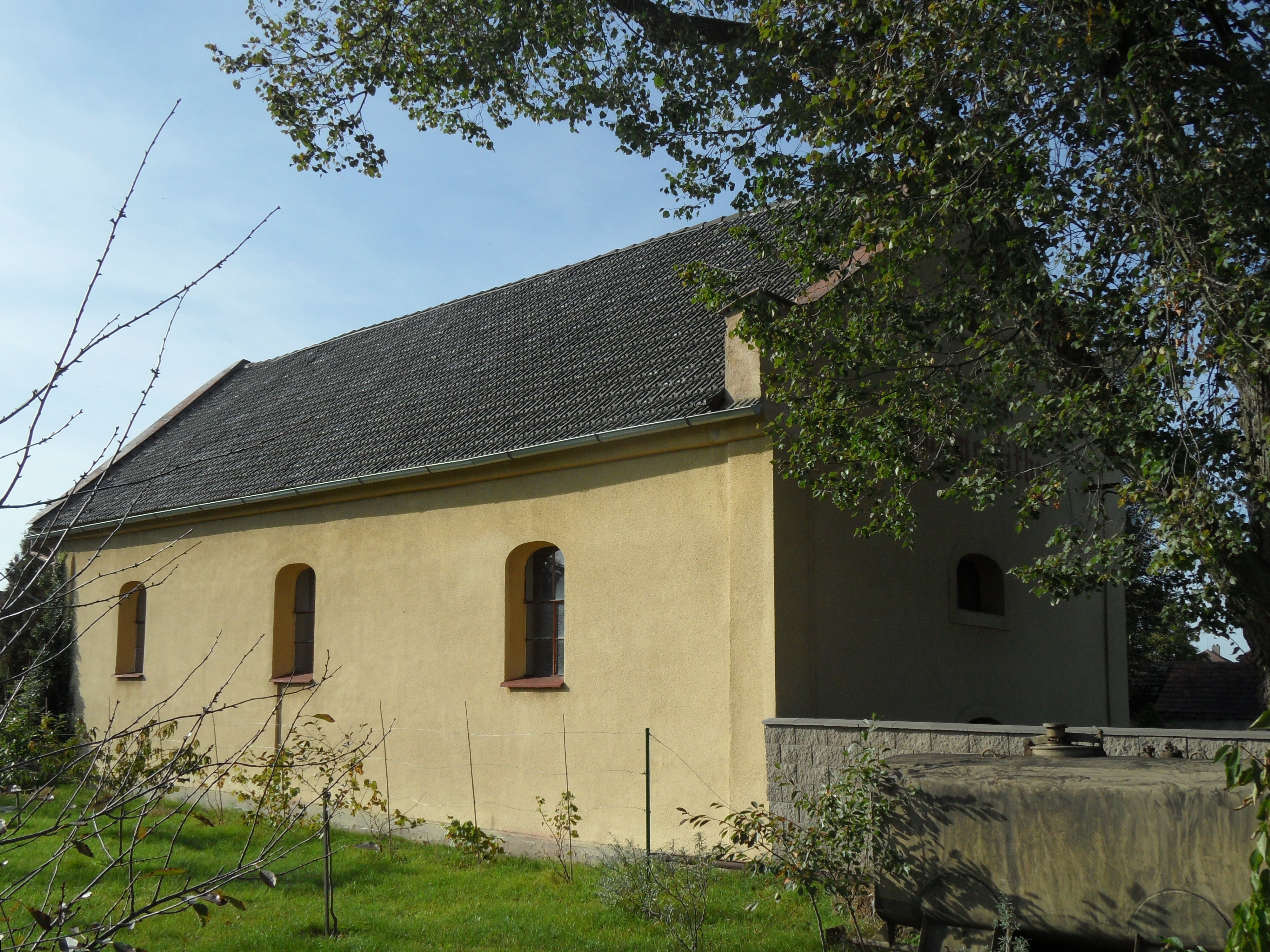 Krakovany 4. Evangelic Church: Detail, Kolín District, the Czech Republic.